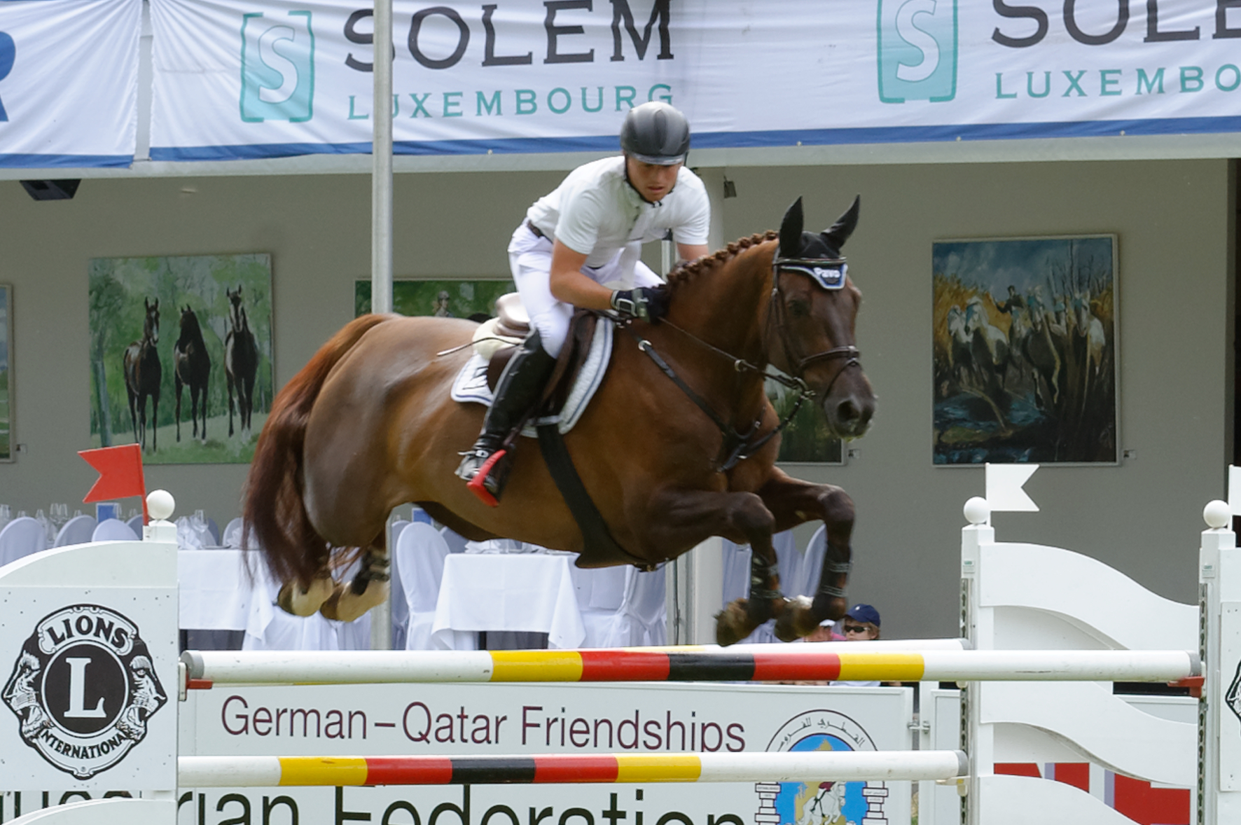 Internationales Pfingstturnier Wiesbaden 2014 The making of this document was supported by the Community-Budget of Wikimedia Germany.